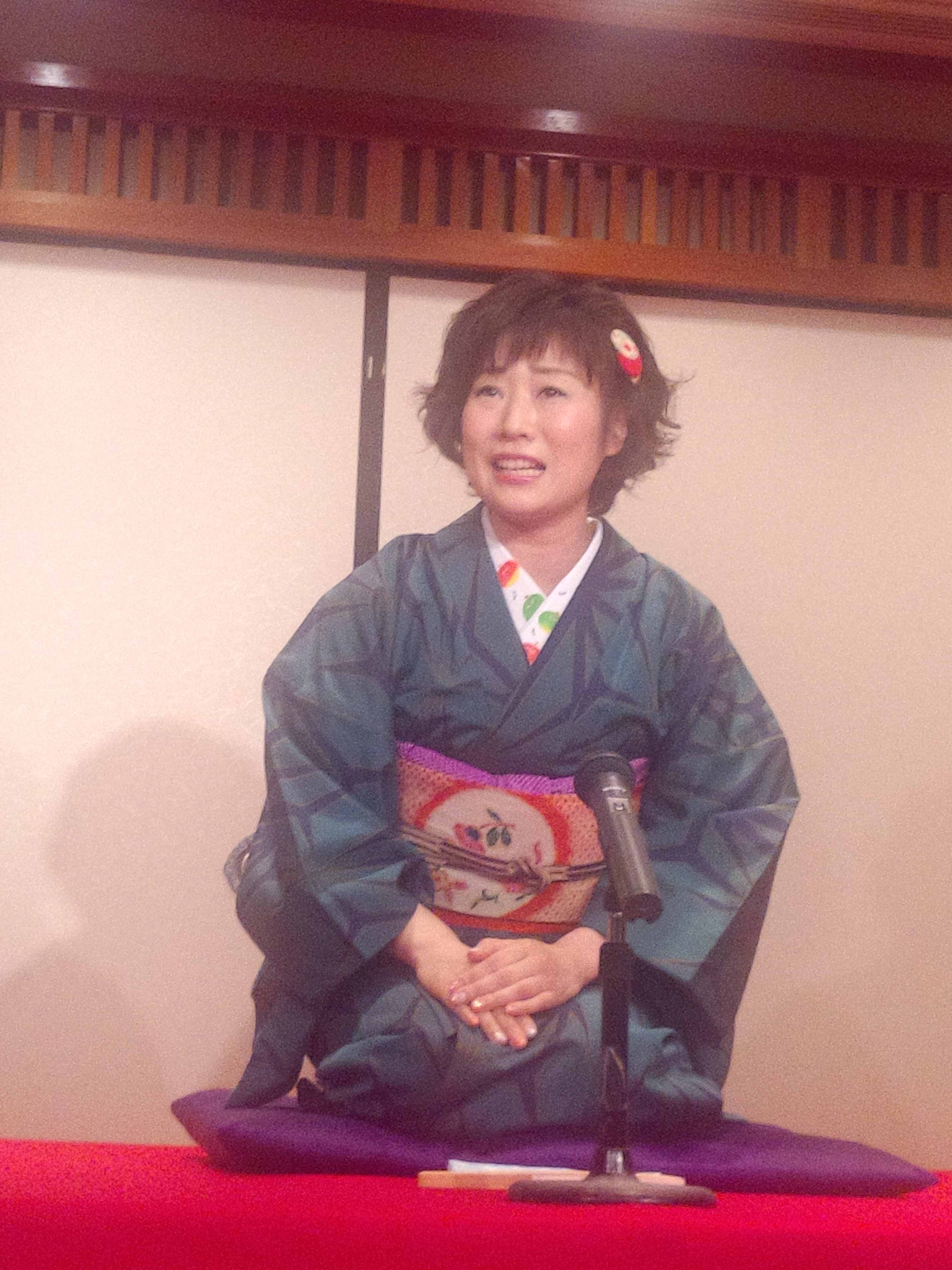 Reiko Kato who plays RAKUGO by the name of "Hakataya-Konpeitou"